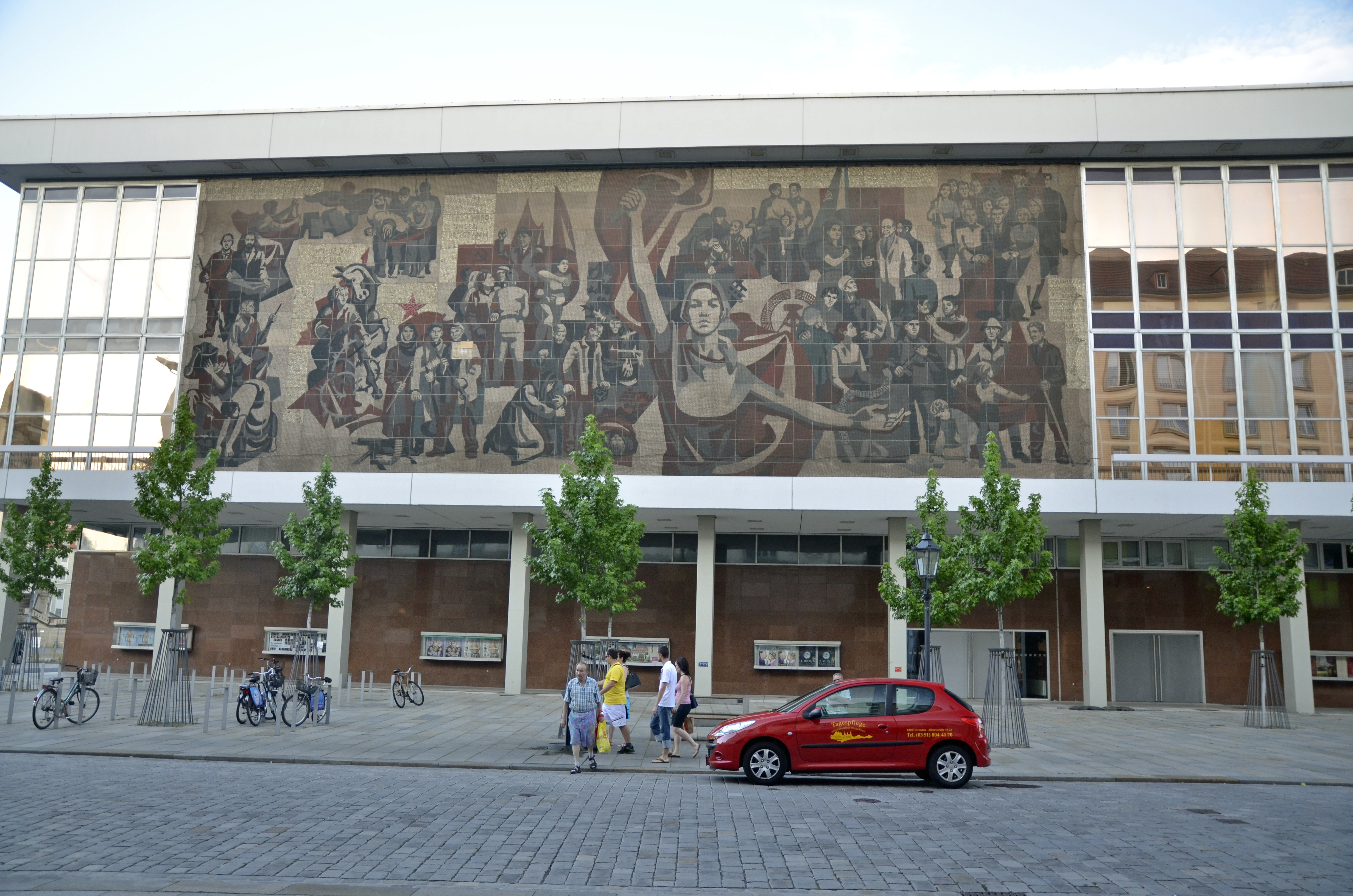 Dresden (Germany) - Culture Palace (Wilsdruffer Straße) - Facade